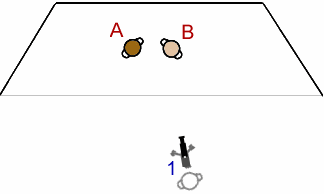 overhead diagram of a set with a couple of actors and a single camera.